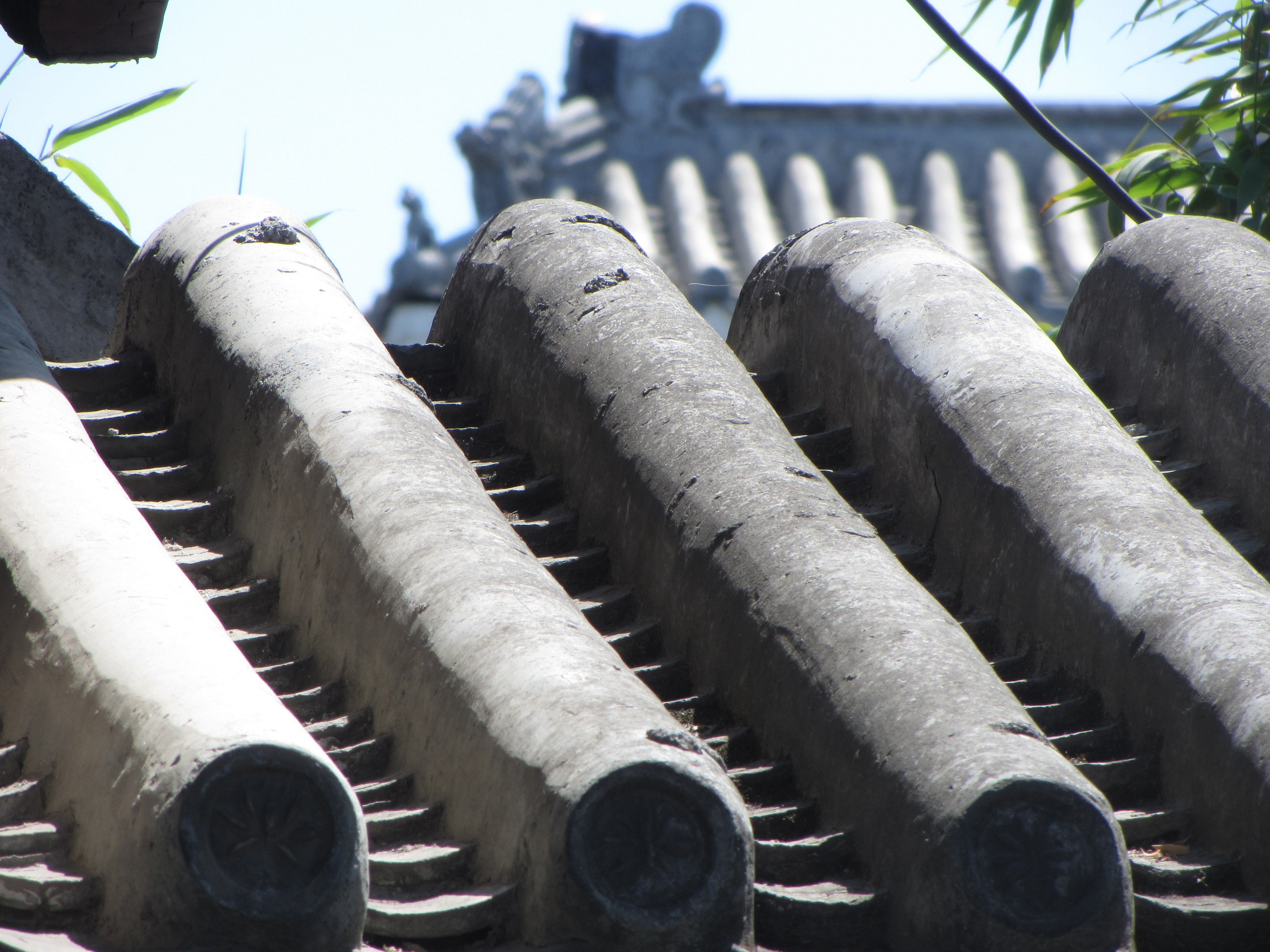 Courtyard 7